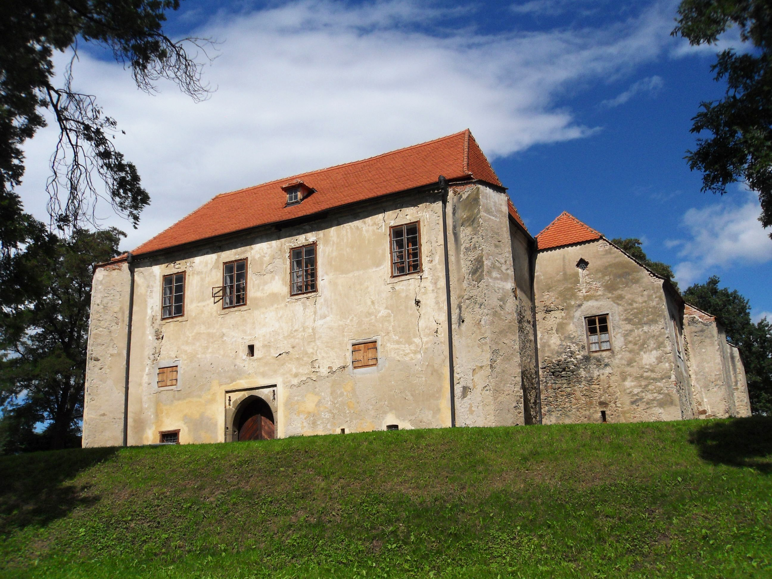 Cuknštejn fortress, Údolí, Nové Hrady, České Budějovice district, Czech Republic